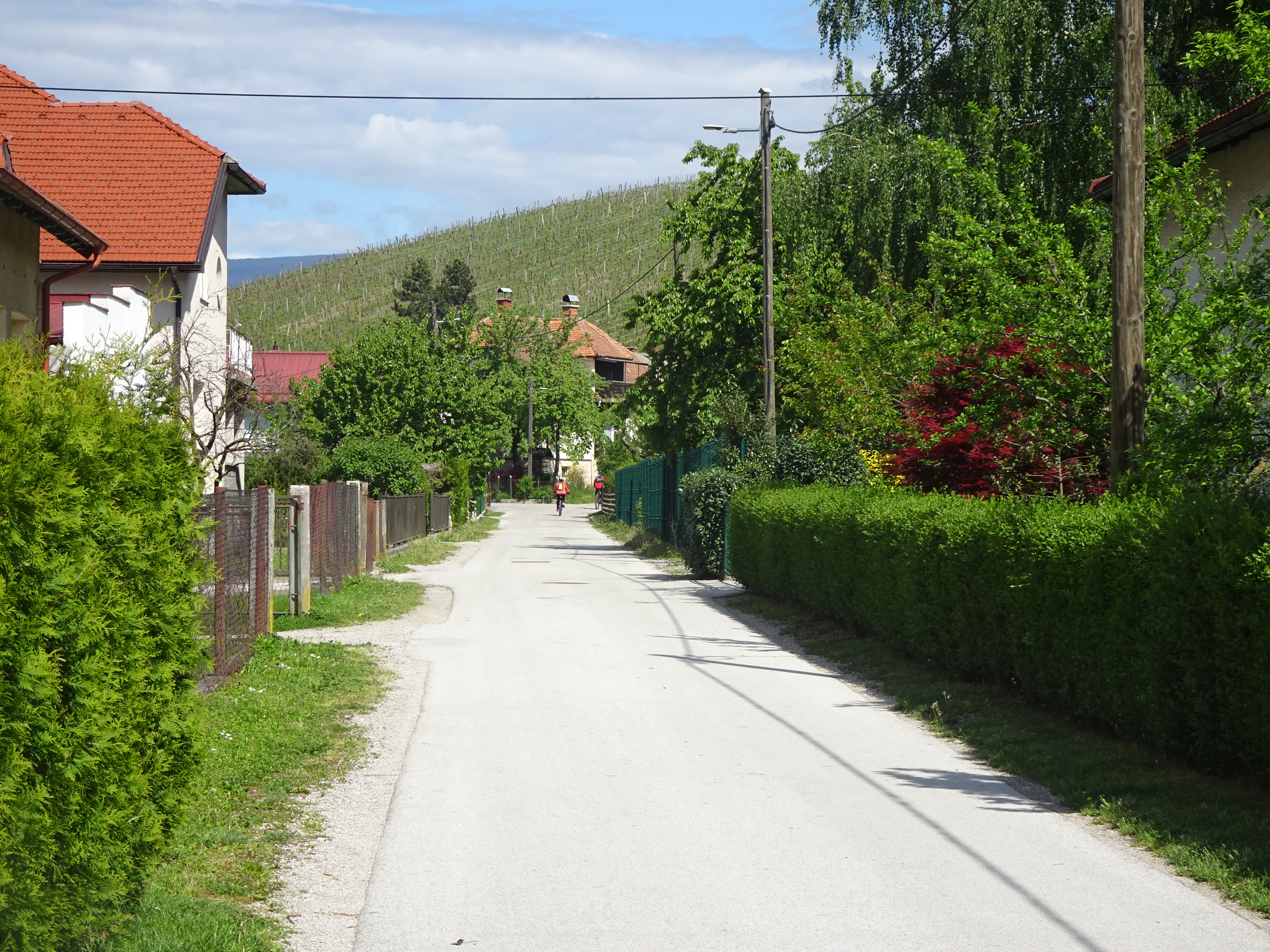 Mlinska cesta (Mill Road) Slovenske Konjice, Slovenia